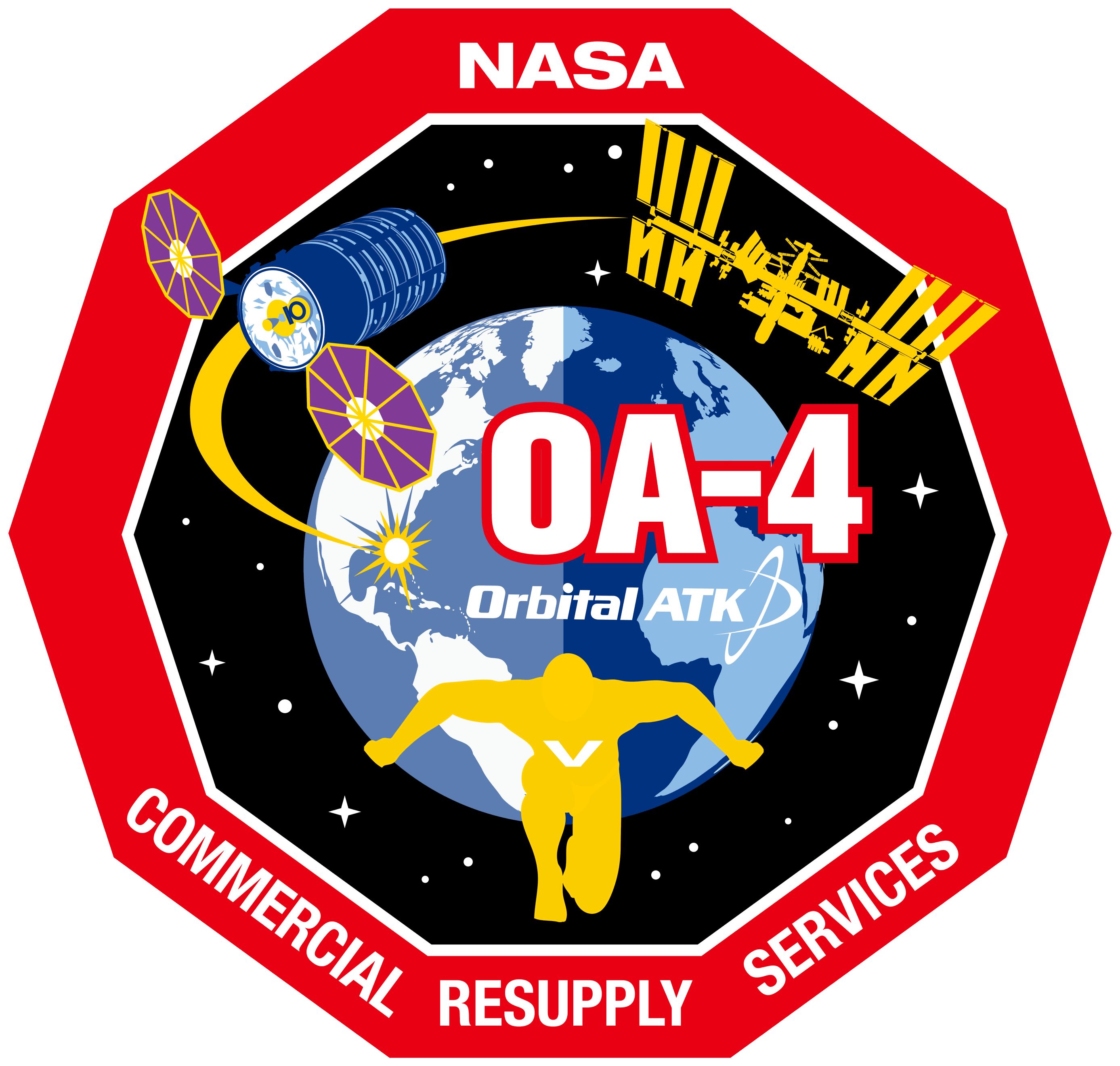 NASA insignia for Orbital's OA-4 resupply flight